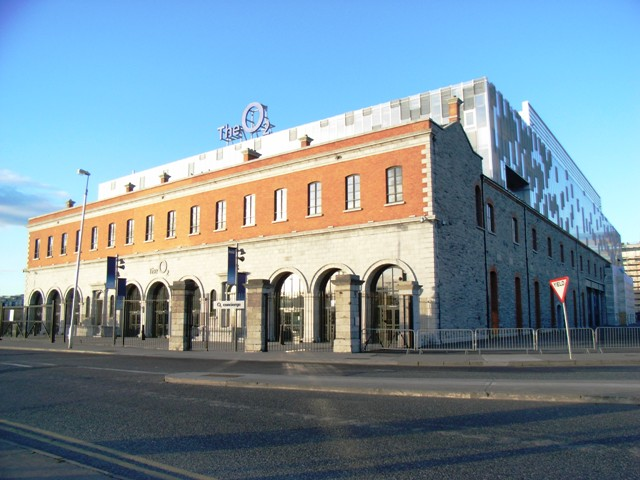 The O2, Dublin Known as the Point Depot or Point Theatre prior to reconstruction in 2008.